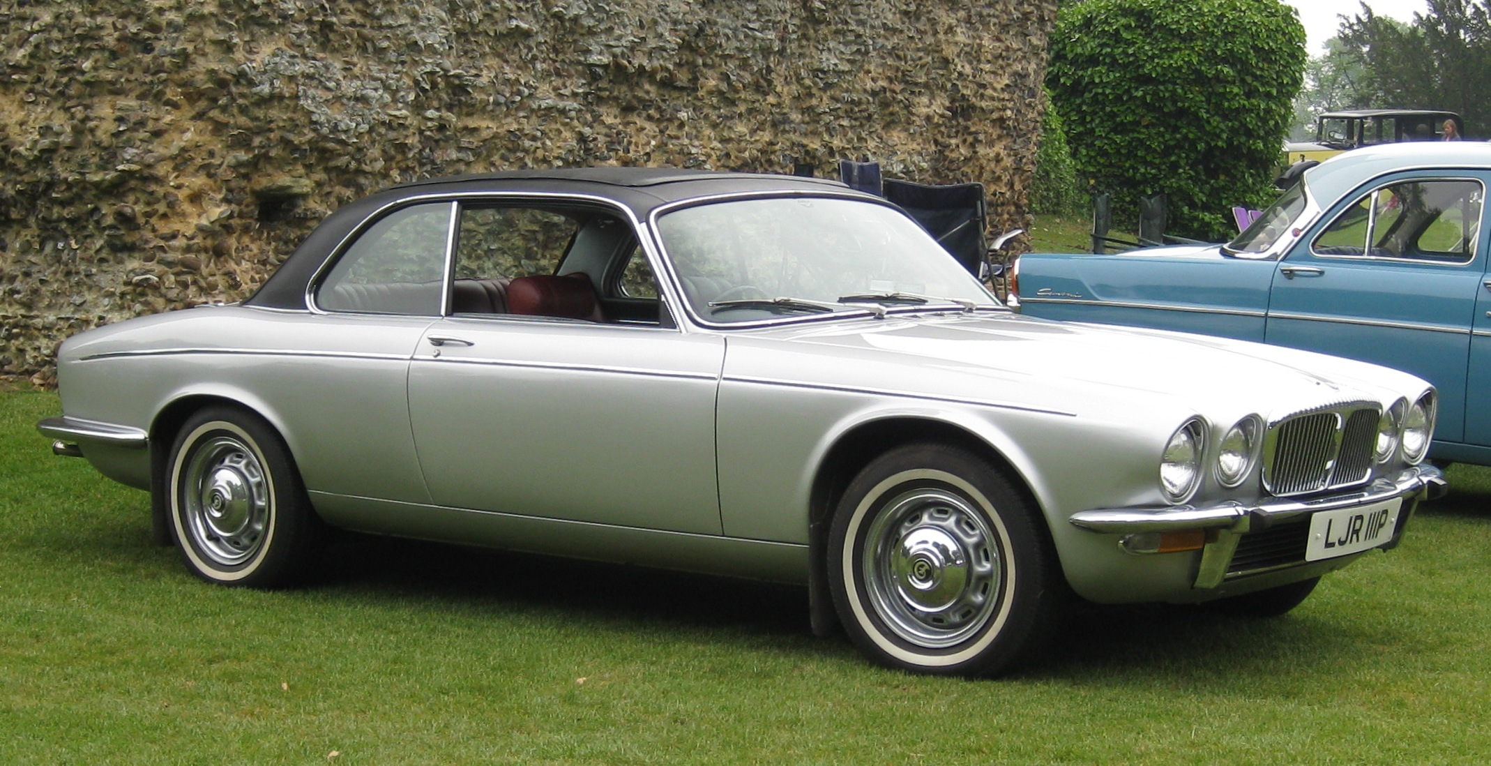 Daimler Sovereign 2 door at castle Hedingham (DVLA) first registered 1 March 1976, 4235cc The car next to it is a Ford Consul.